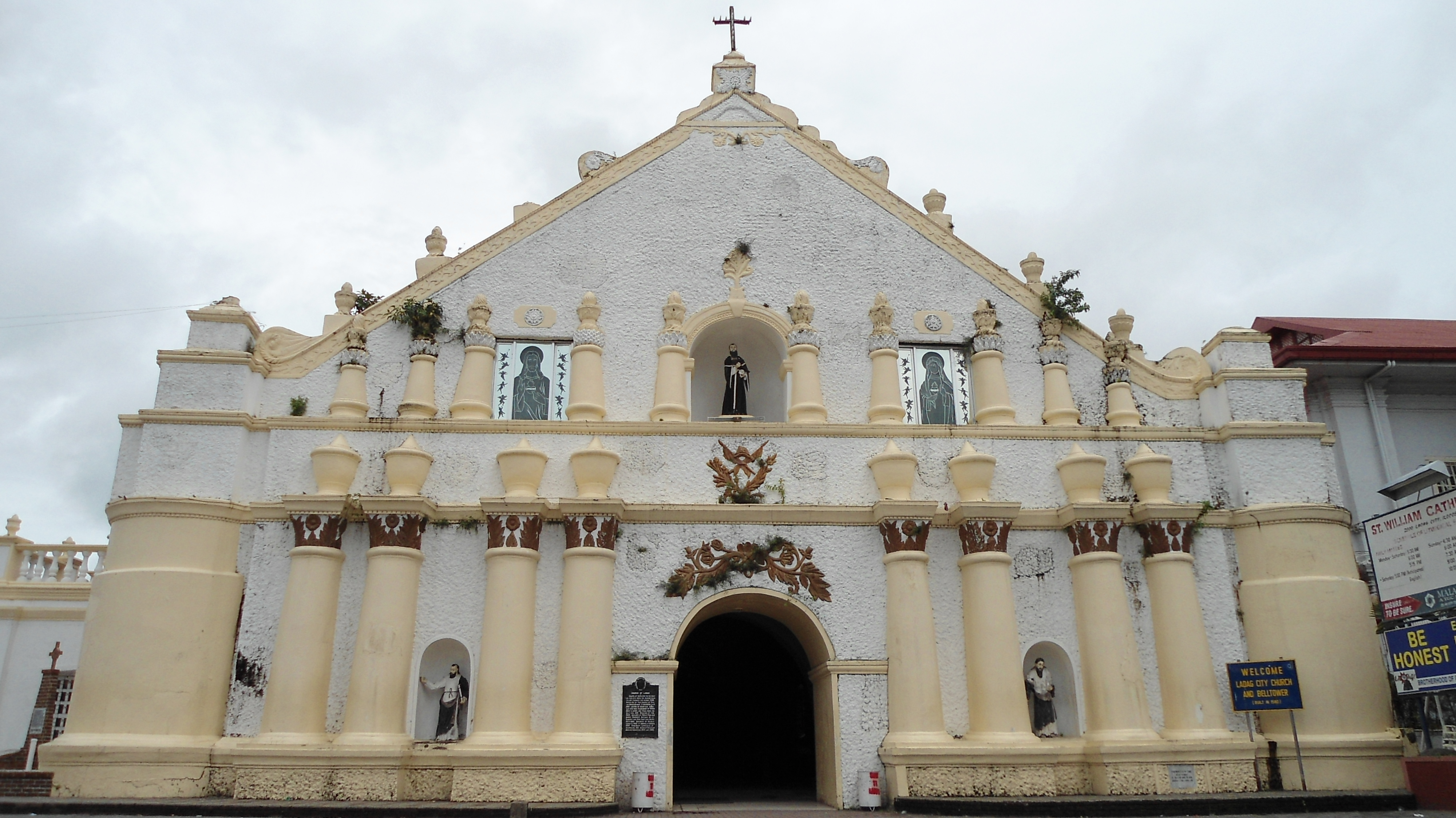 Laoag church front, afternoon